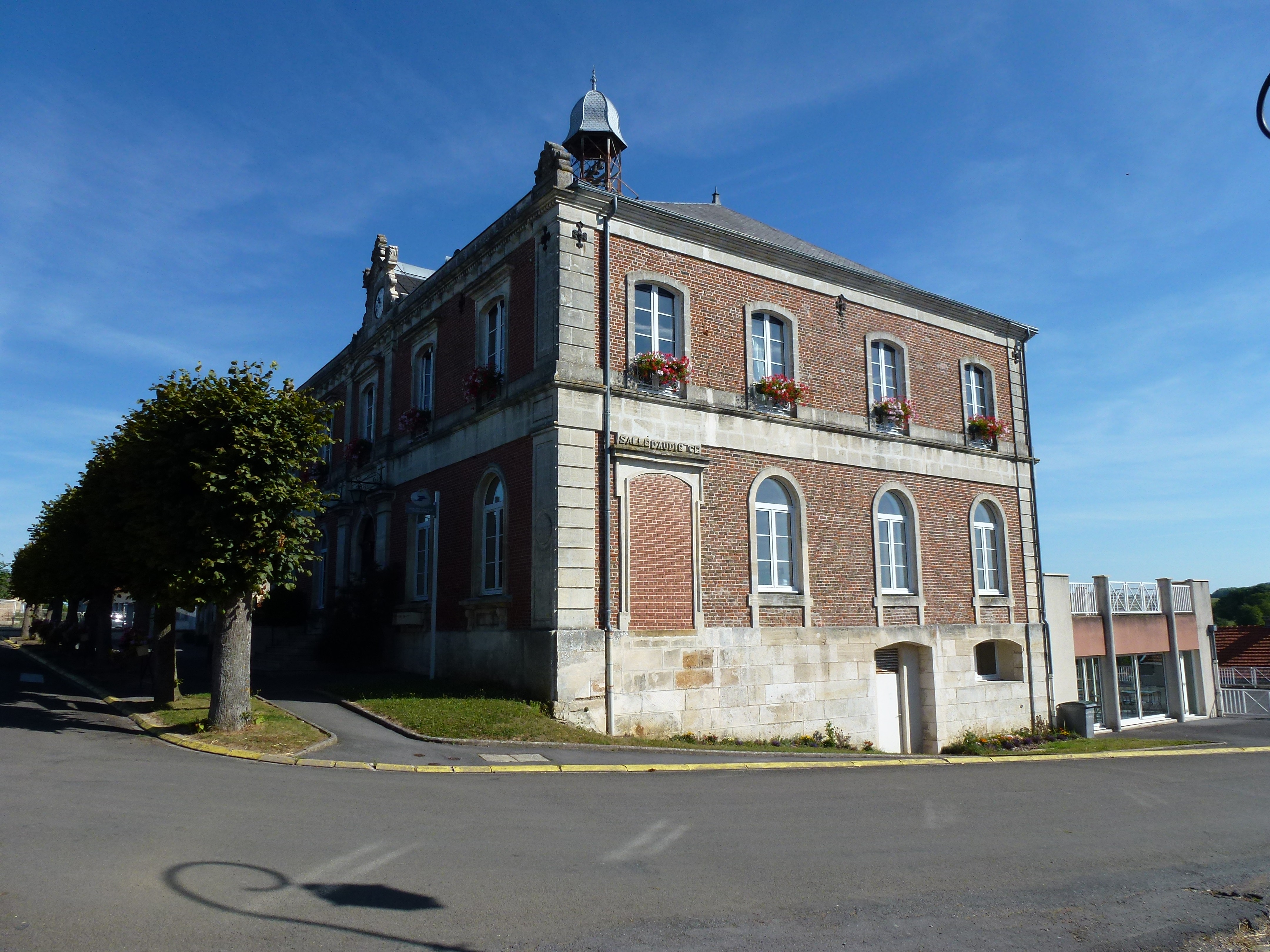 Novion-Porcien (Ardennes) mairie